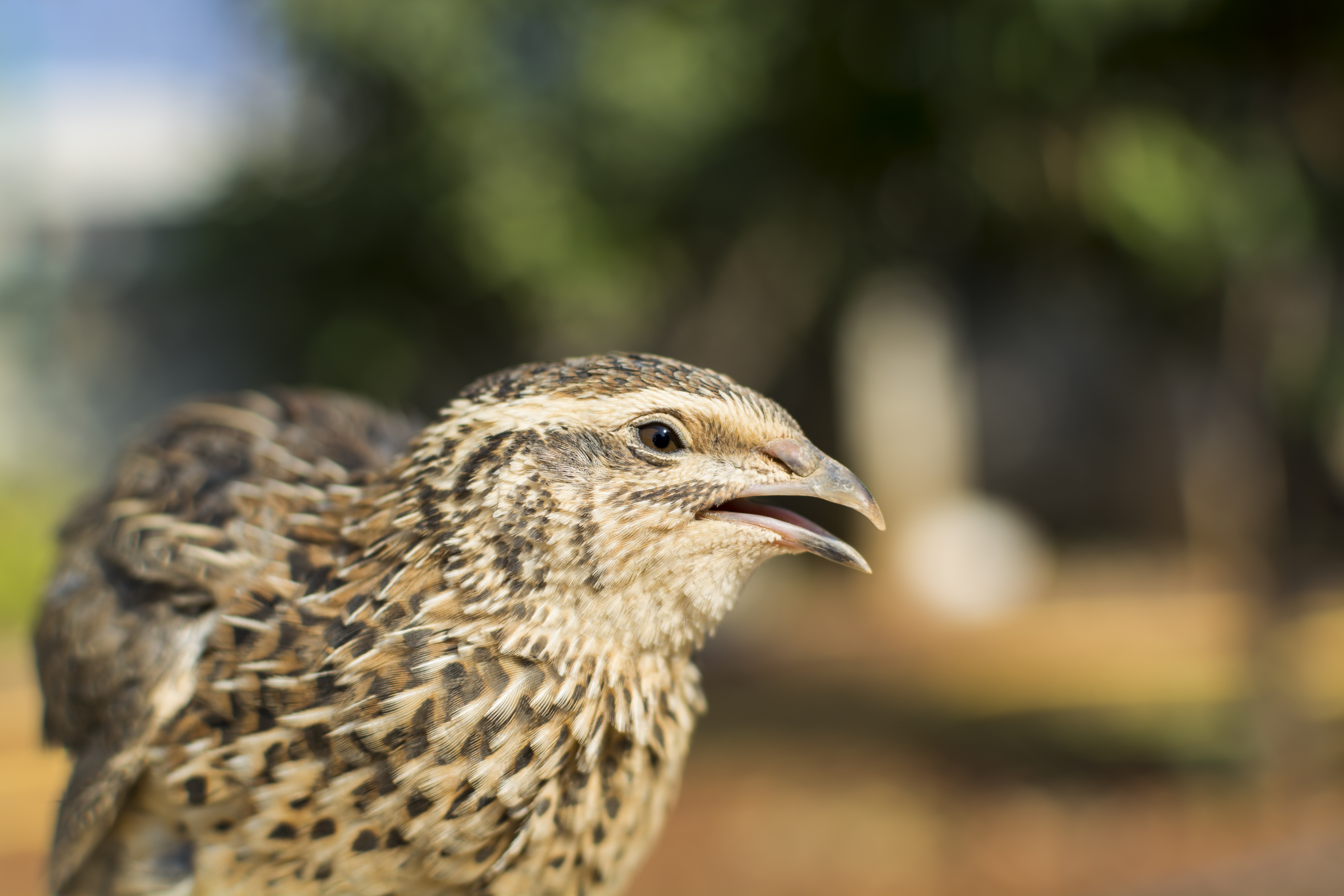 A Common Quail Coturnix coturnix in Lebanon.